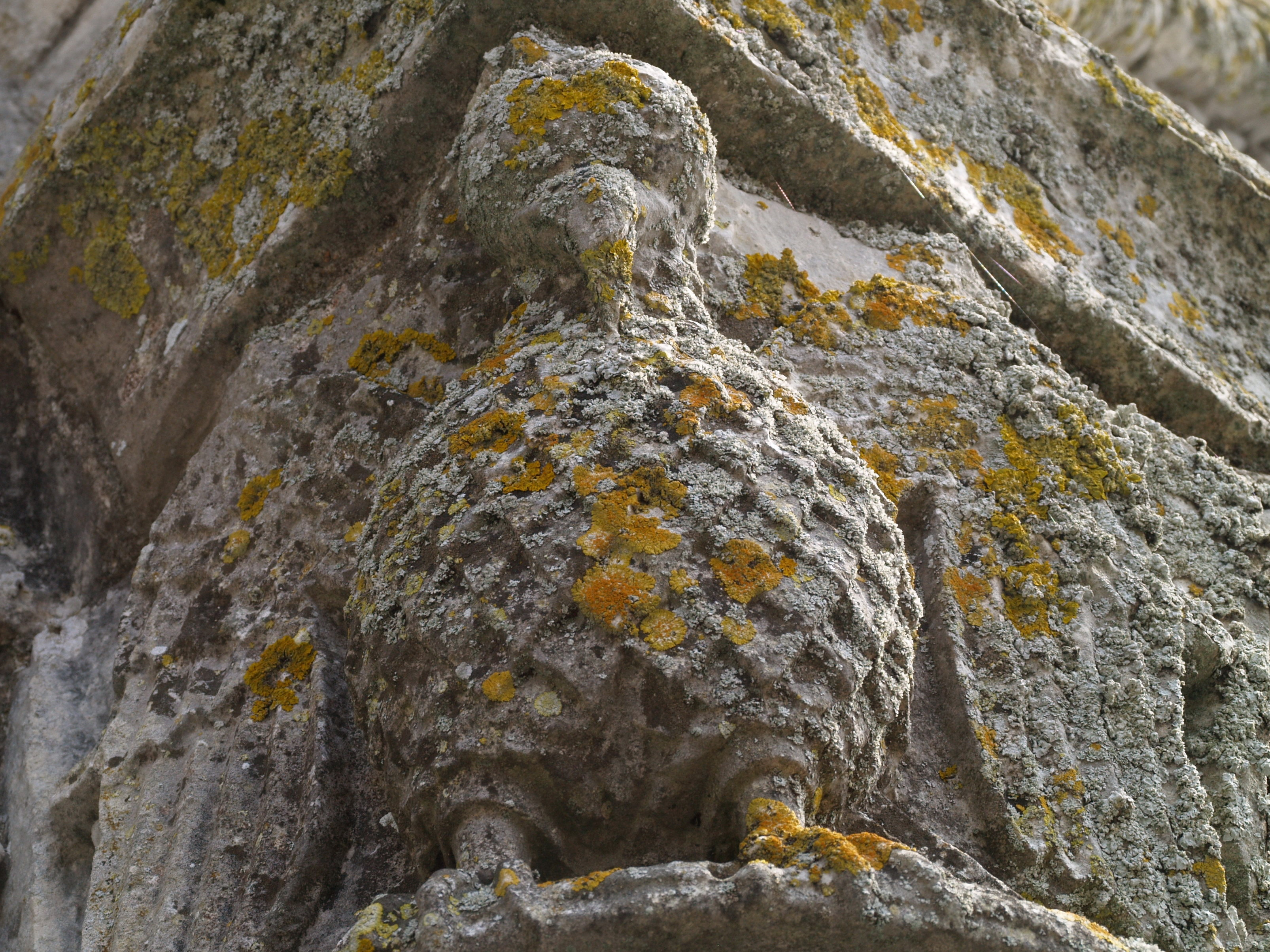 Sainte-Marie-des-Dames (Abbaye-aux-Dames), Saintes (Charente-Maritime, France) - Details of a capital in the church tower: the Phoenix.